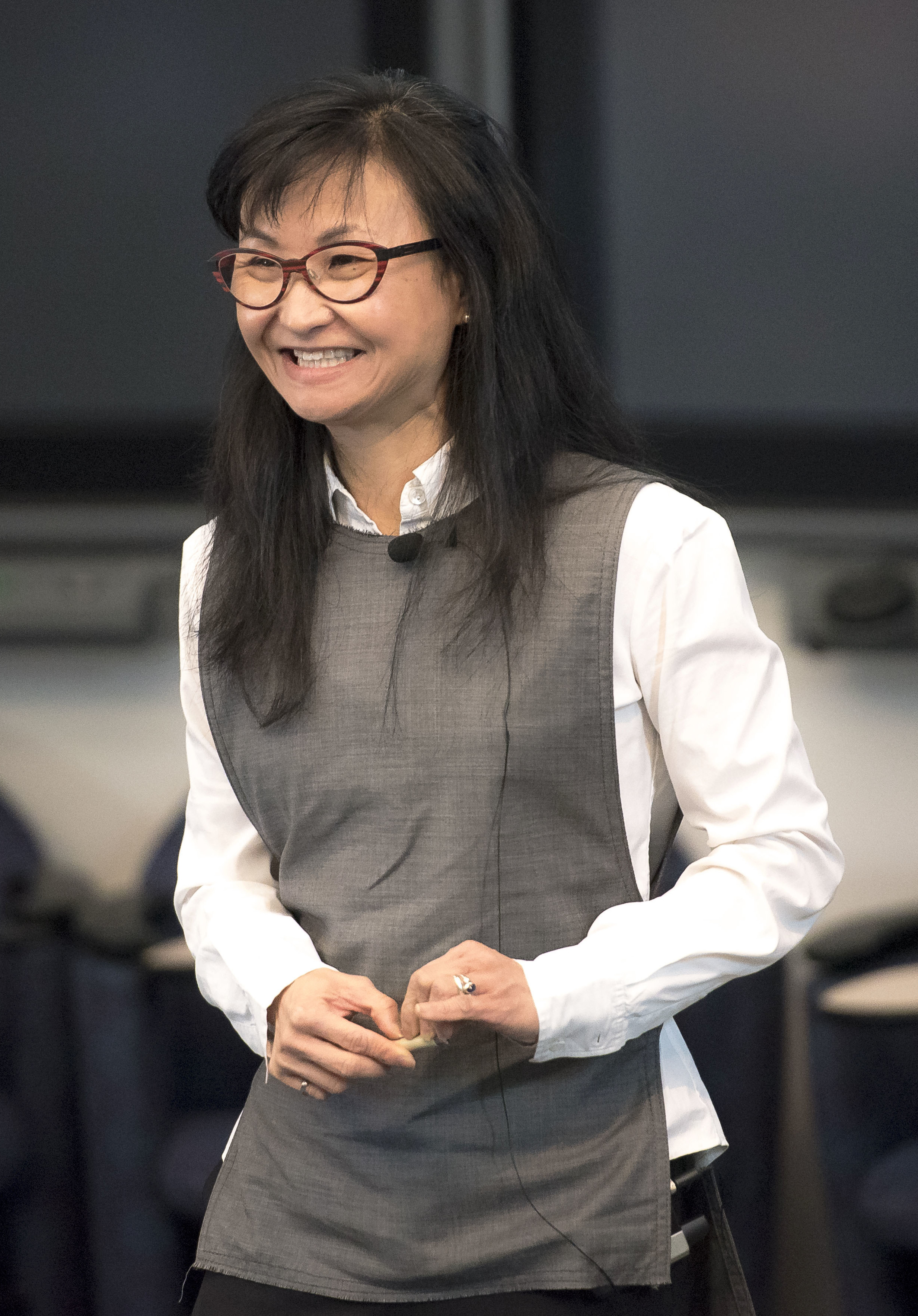 Professor Wendy Chun from Brown University is named a Canada 150 Chair in New Media.